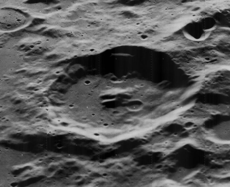 Oblique view of Barringer, on the far side of the moon, facing west.